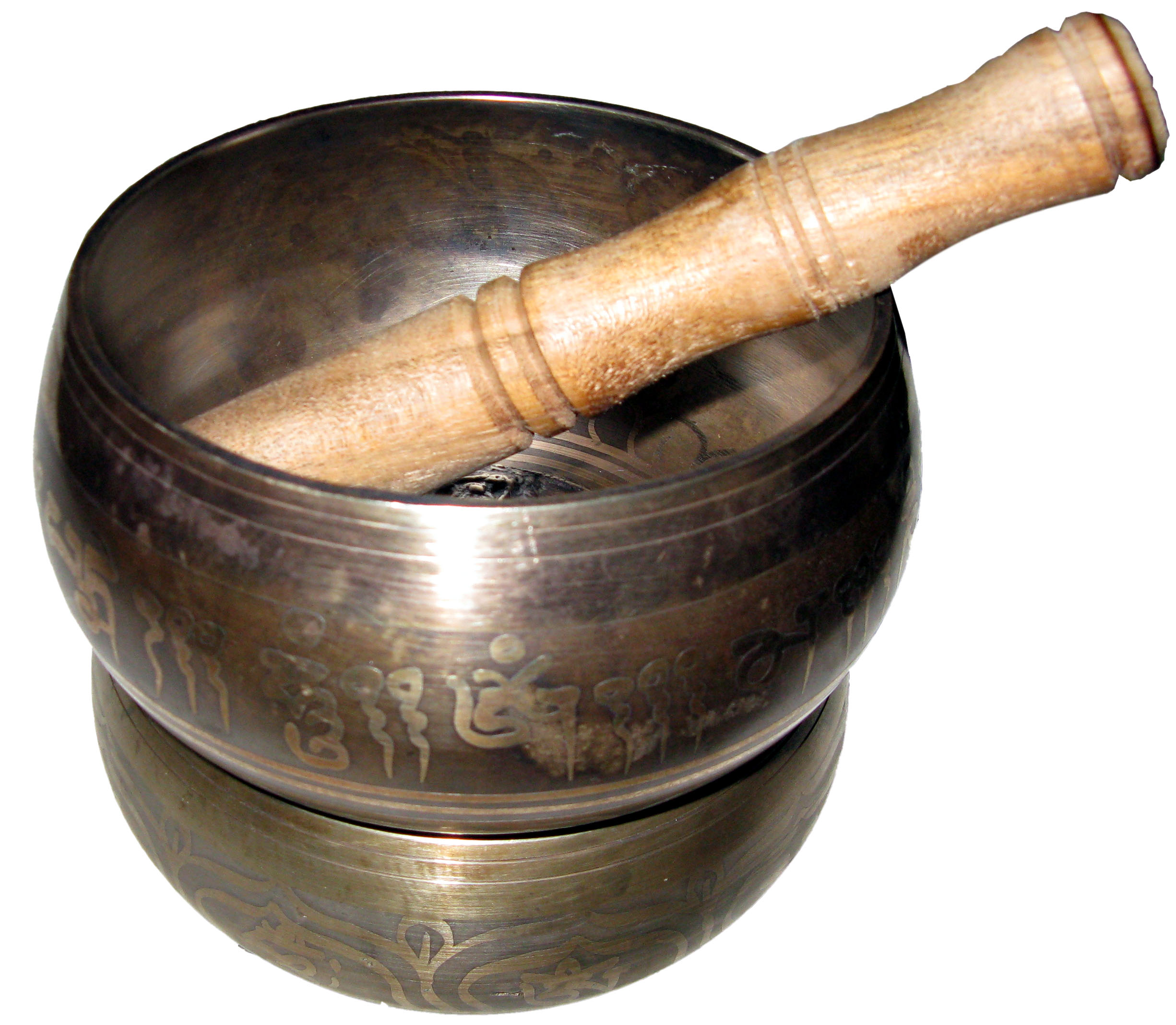 Singing bowls with stick.